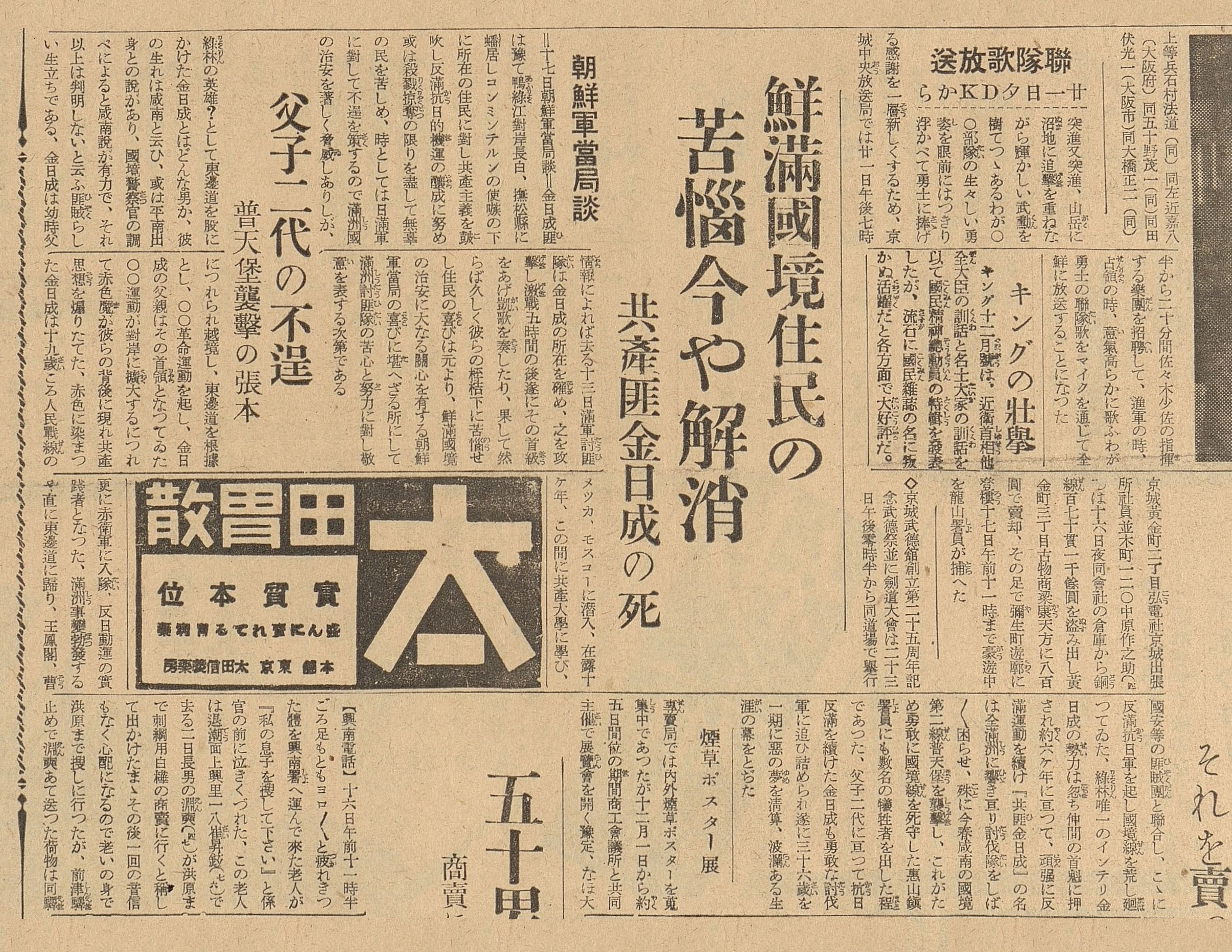 Kyungsung Daily article reporting that Kim Il Sung, who attacked Pochonbo village on June 4, 1937, had been killed on November 13, 1937.